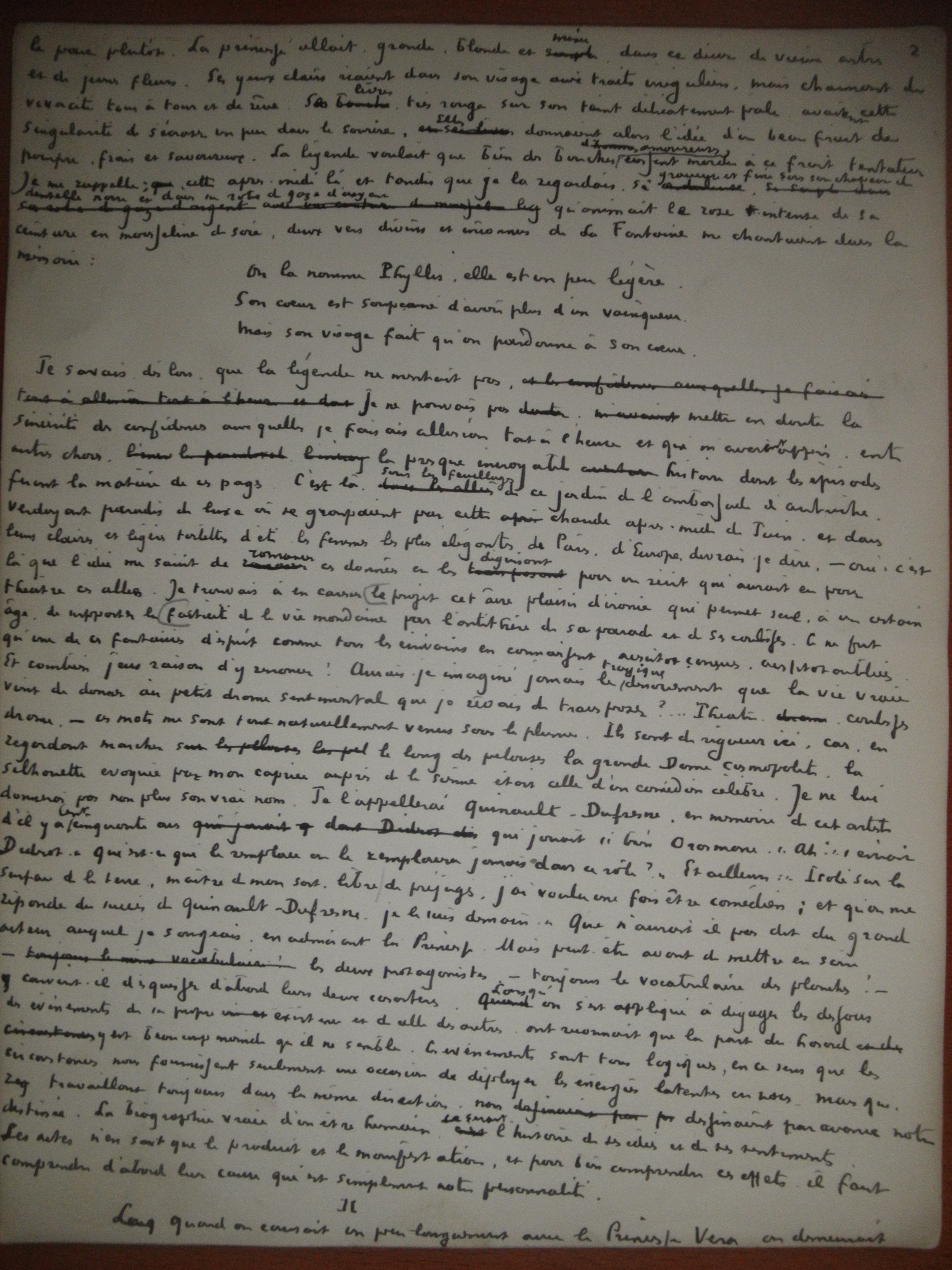 beau role 22